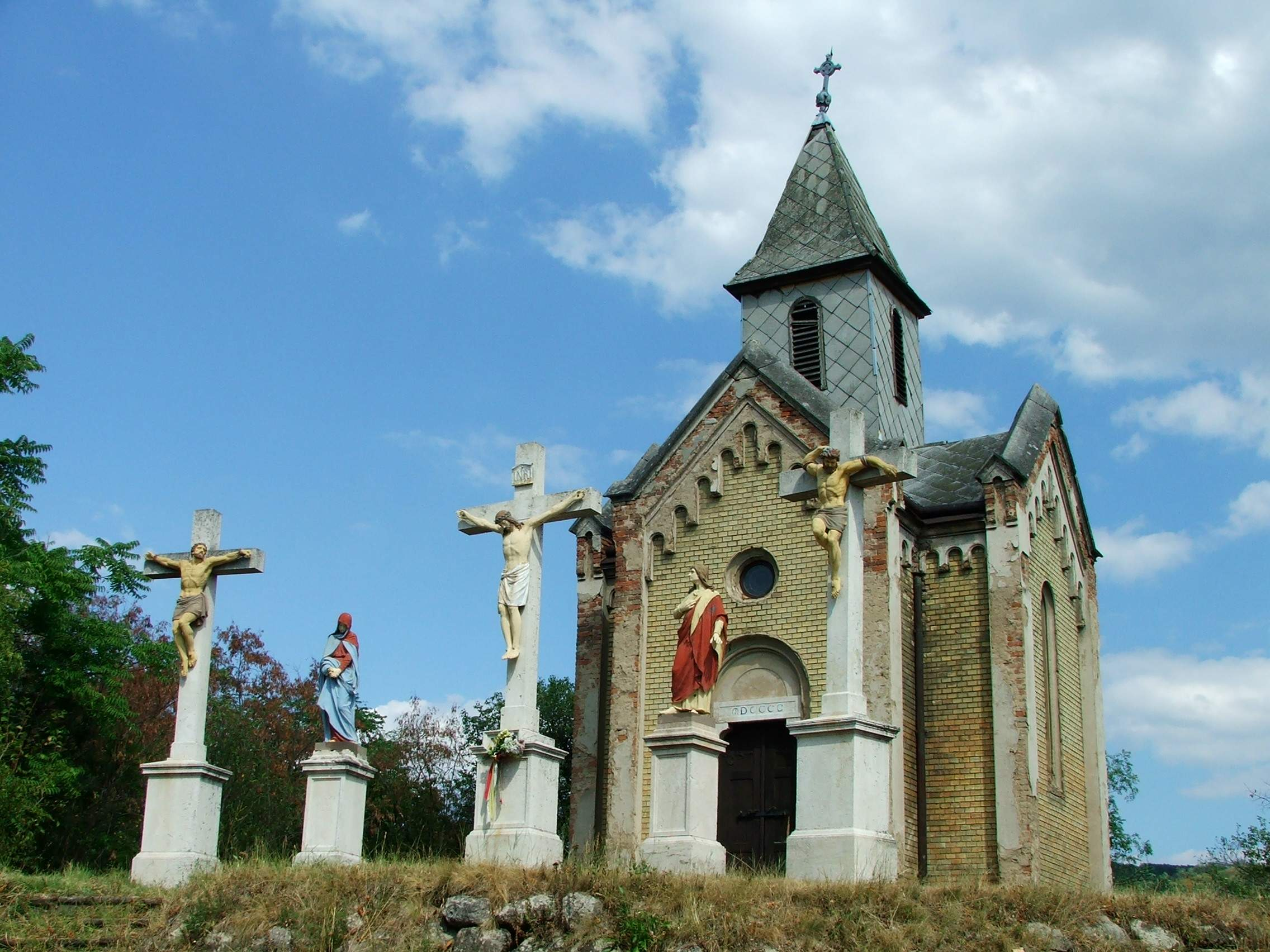 The Calvary-chapel in Esztergom This is a photo of a monument in Hungary, Identifier: 6242